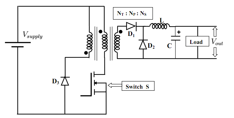 This is a partial schematic of a forward converter SMPS, showing the most important components. The PWM circuitry driving the transistor is omitted. Author or copyright owner